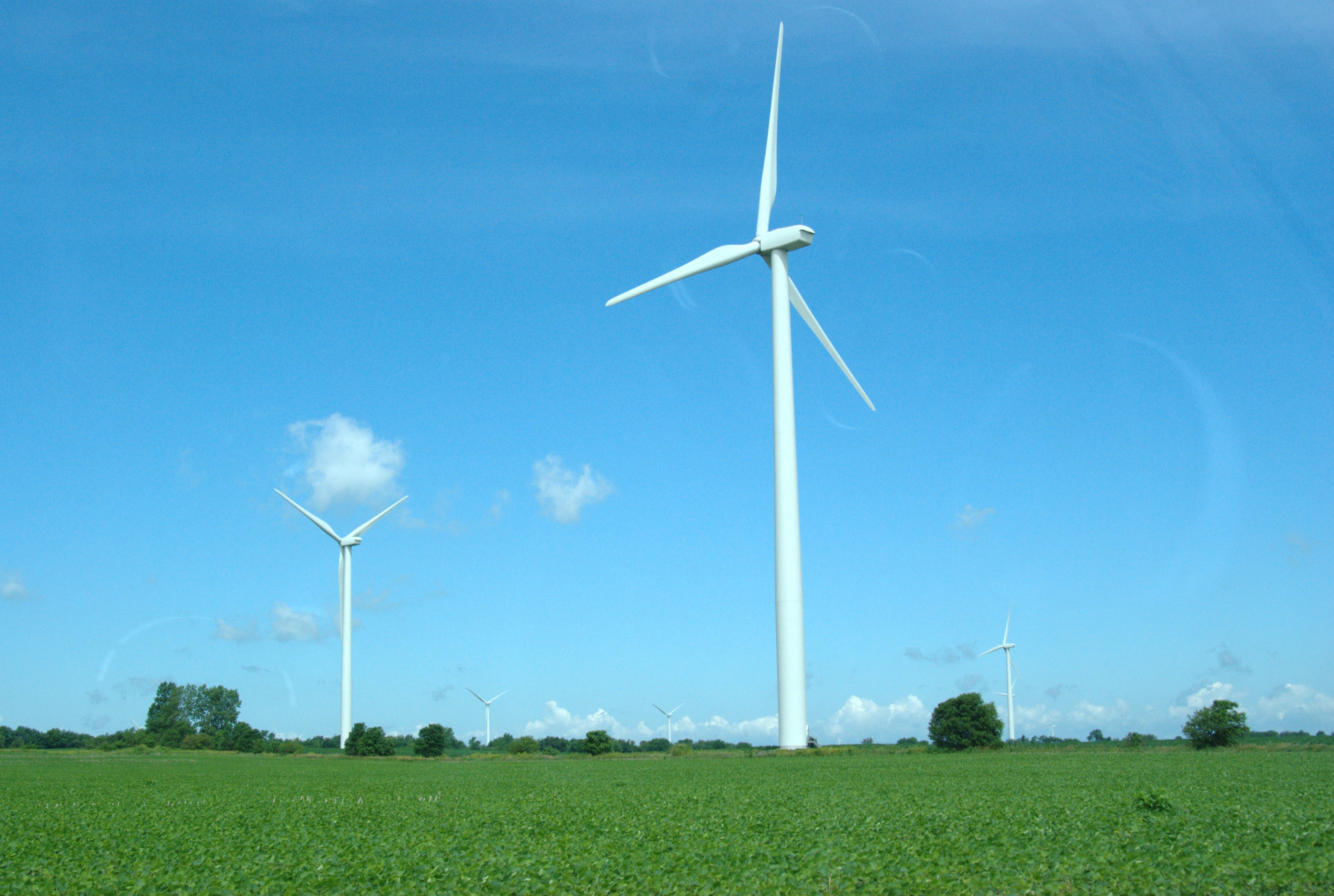 A closer shot of a wind turbine.